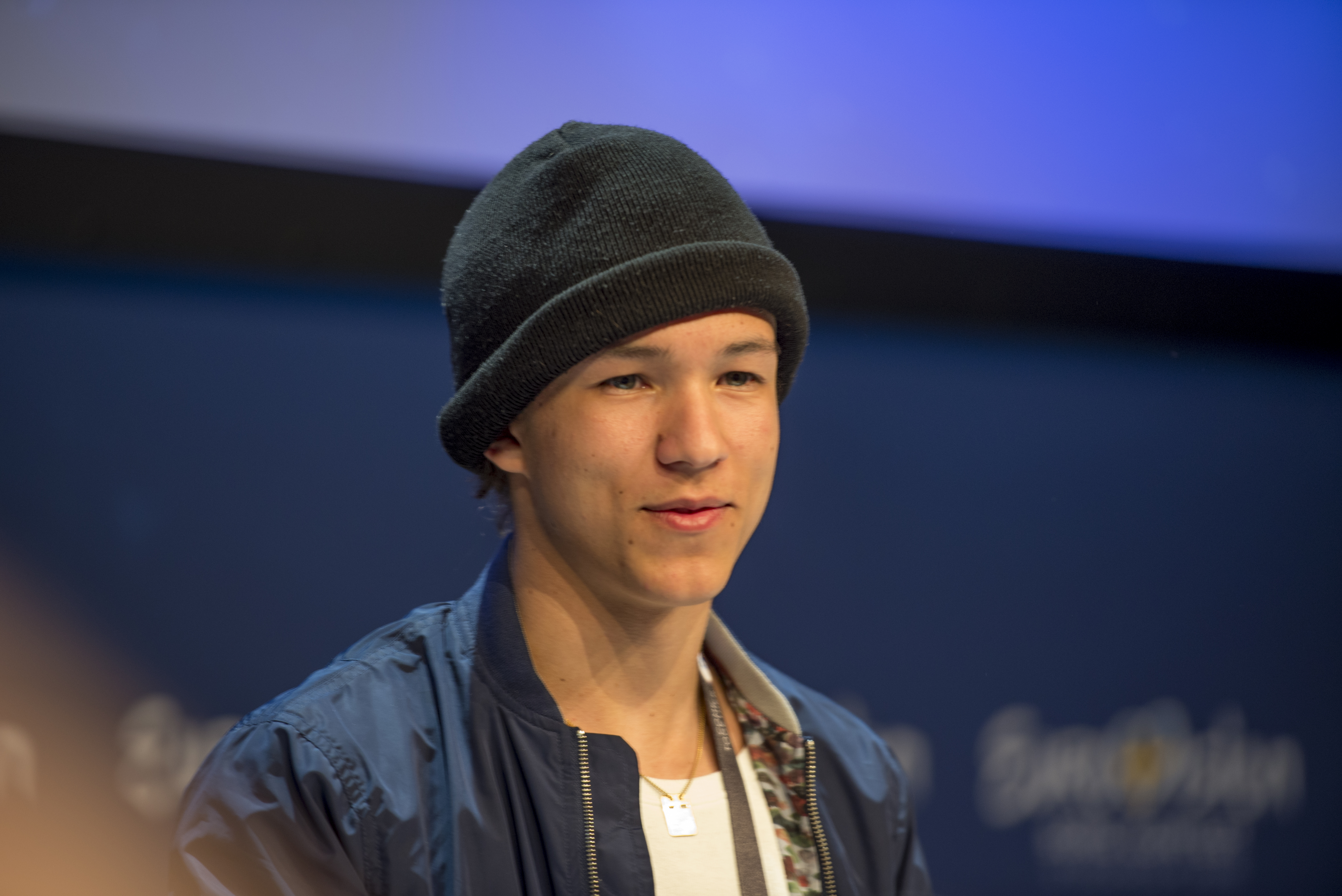 Frans at a Meet & Greet during the Eurovision Song Contest 2016 in Stockholm. (Help translate this text)